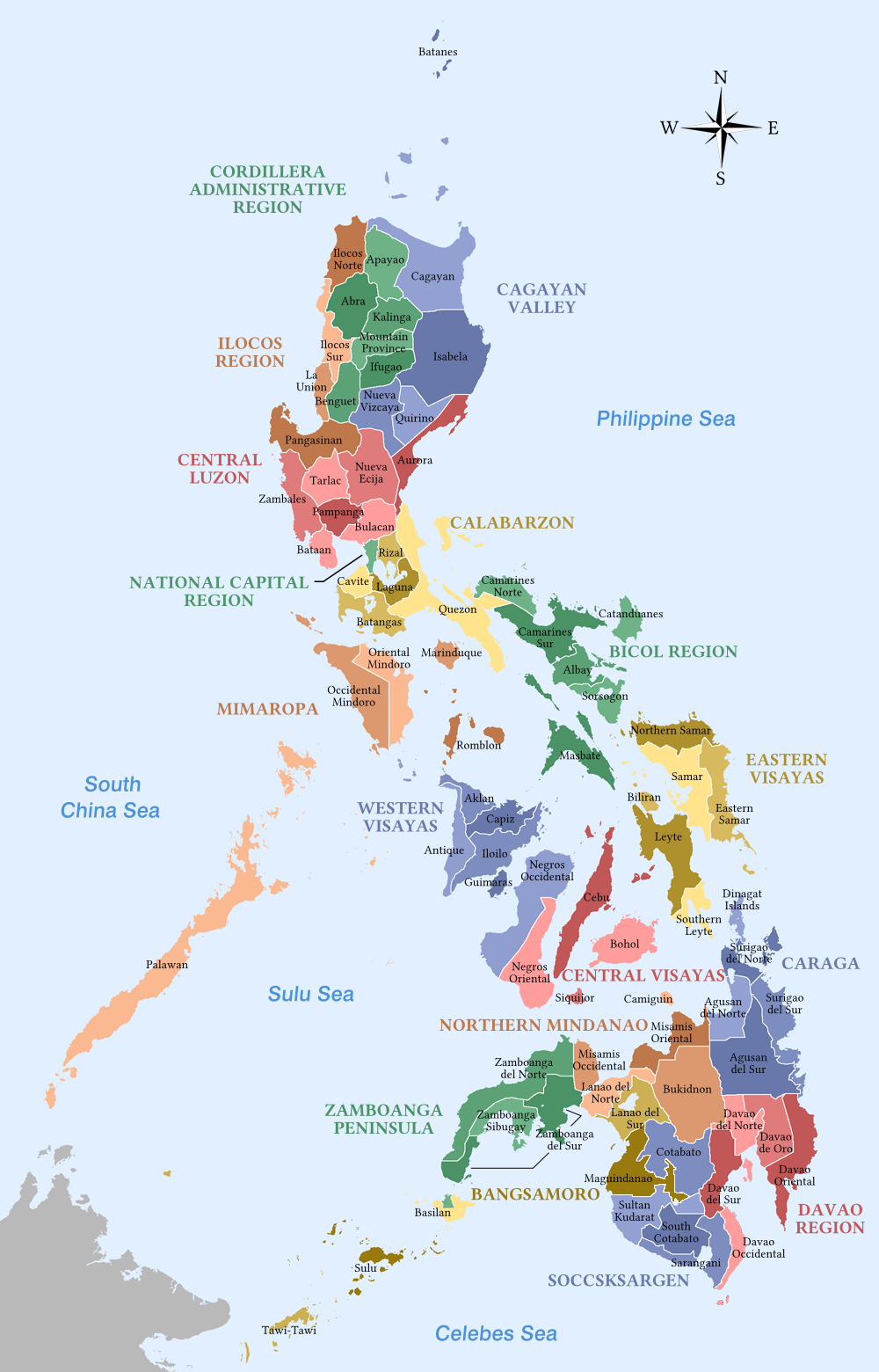 Labelled Map of the Philippines, showing its component 17 regions and 81 provinces.